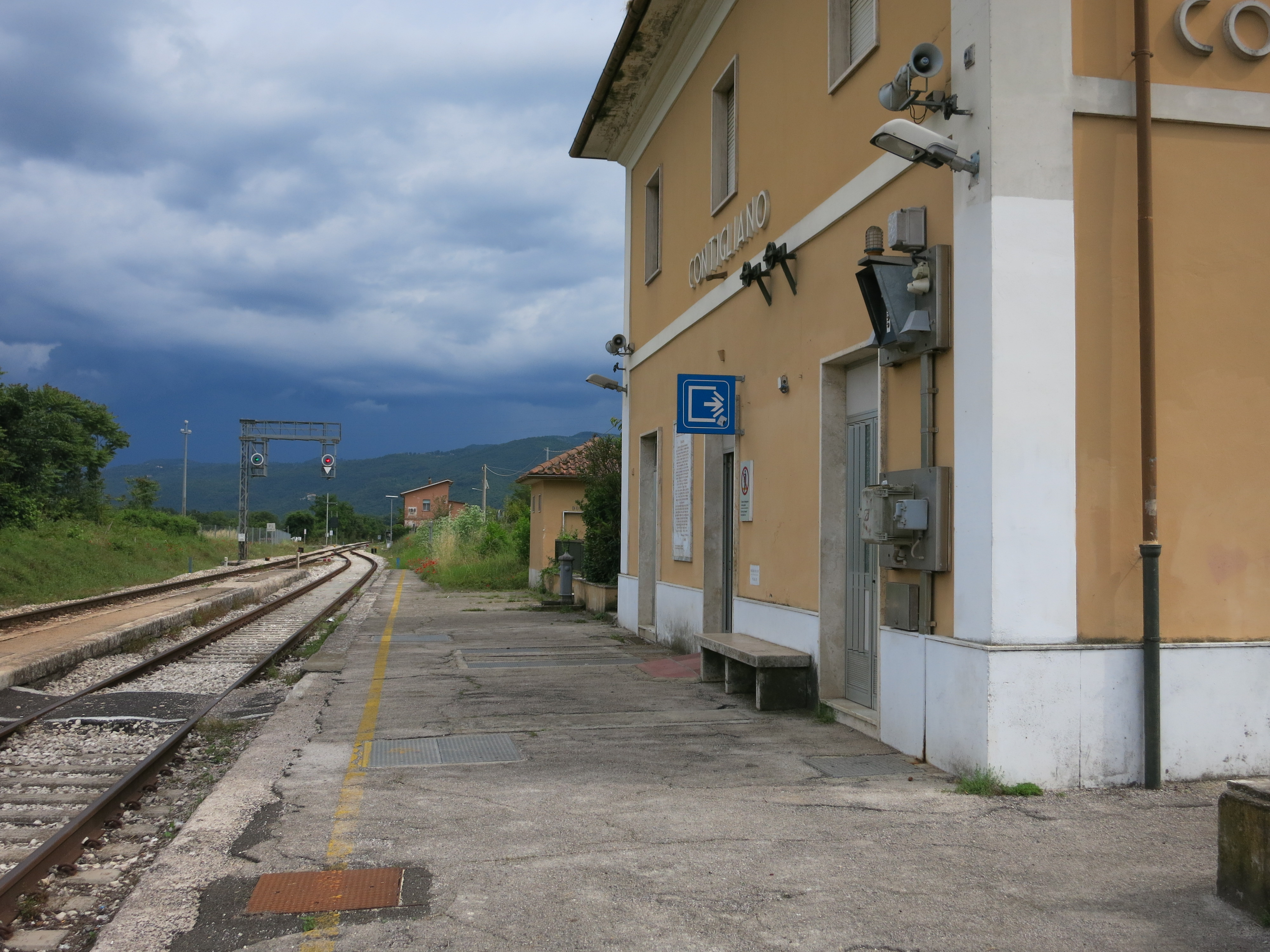 Contigliano train station - province of Rieti, Lazio, Italy